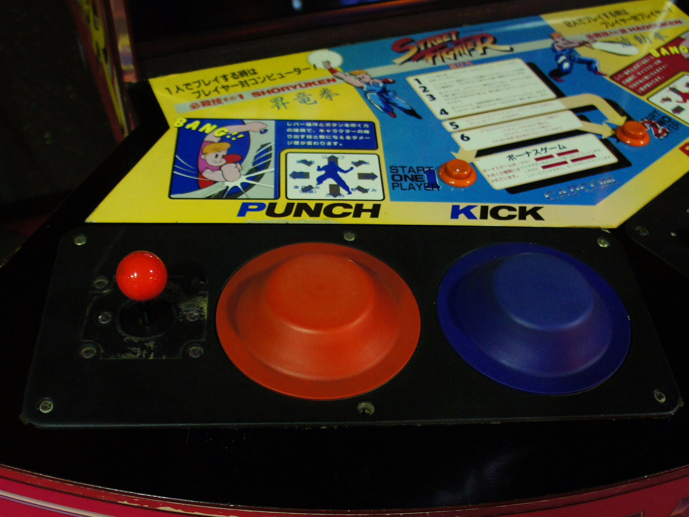 Console of StreetFighter.